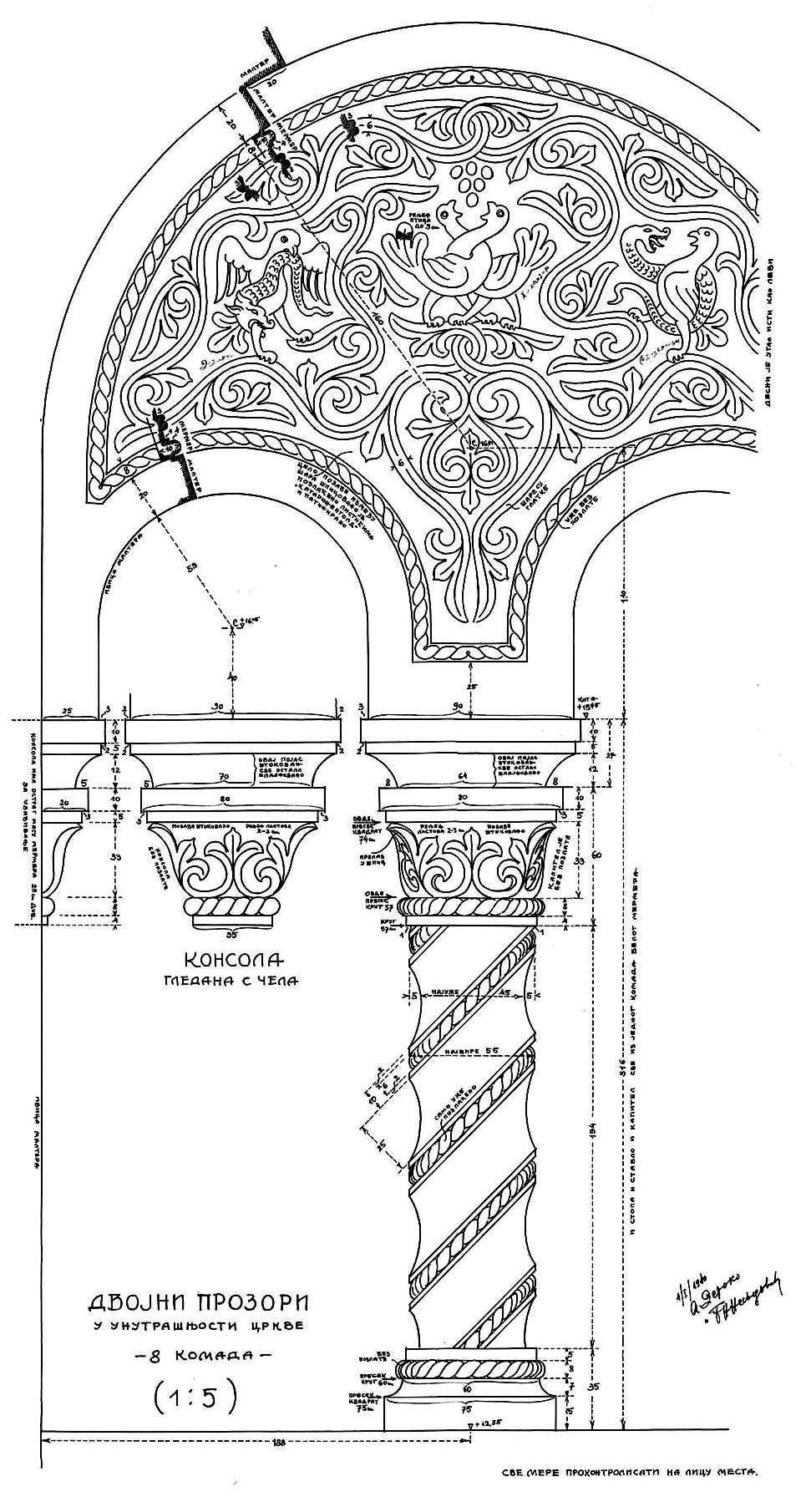 Aleksandar Deroko Drawing Biforija for the Temple of St. Sava in Belgrade 1940